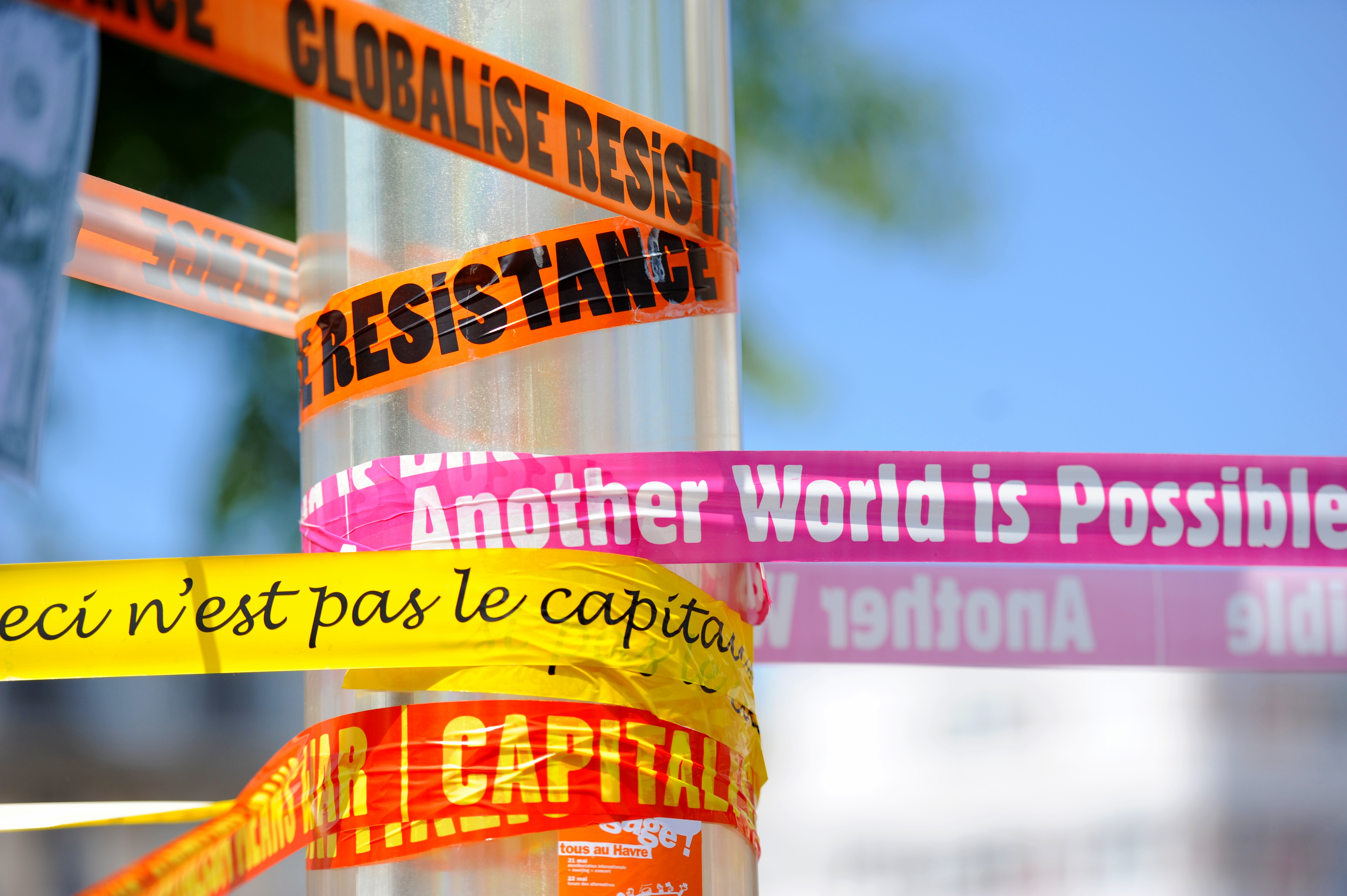 Anti-G8 demonstration in Le Havre, France, the week-end before the G8 summit in Deauville.